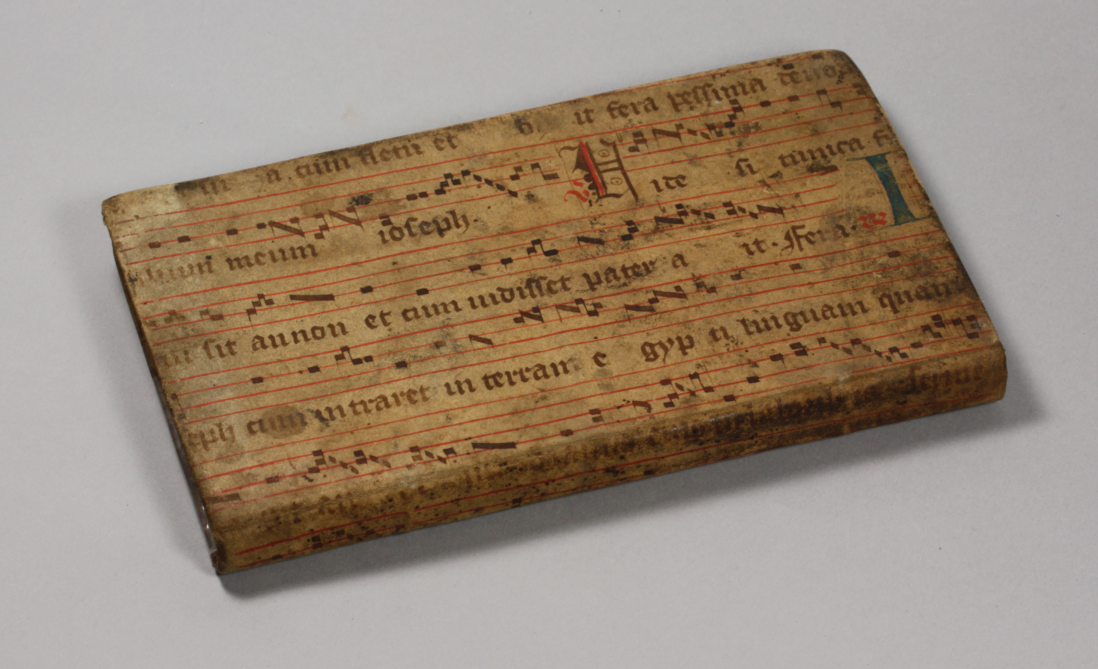 Cover of Drey schöne und auserlesene Tractätlein von Verwandelung der Metallen, Hamburg: C. Guths, 1675. George Starkey (1628-1665) grew up in America and studied at Harvard University before moving to England and becoming Robert Boyle’s alchemical tutor. Many of his works were published under the pseudonym Eirenaeus Philalethes, "the peaceful lover of truth".